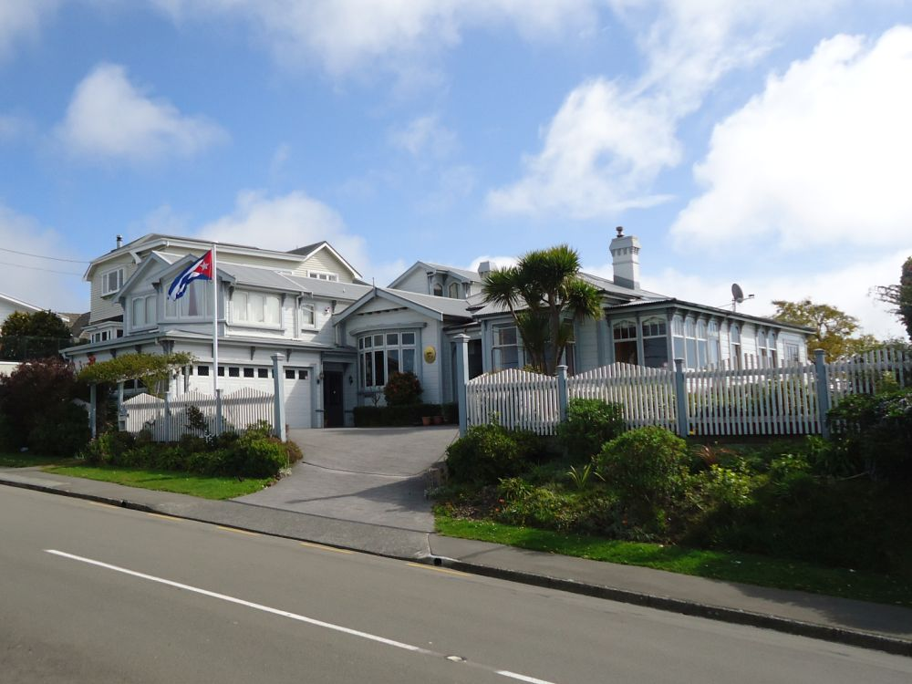 Embassy of Cuba in Wellington, New Zealand